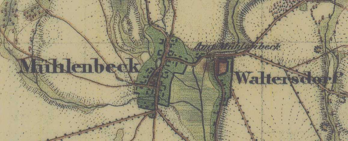 Amt Mühlenbeck, near Mühlenbeck, Gem. Mühlenbecker Land, Lkr. Oberhavel, Brandenburg, Germany, Detail from the Urmesstischblatt Sheet 3346 Berlin-Buchholz, drawn in 1839